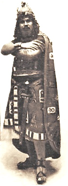 Amedeo Bassi, tenor